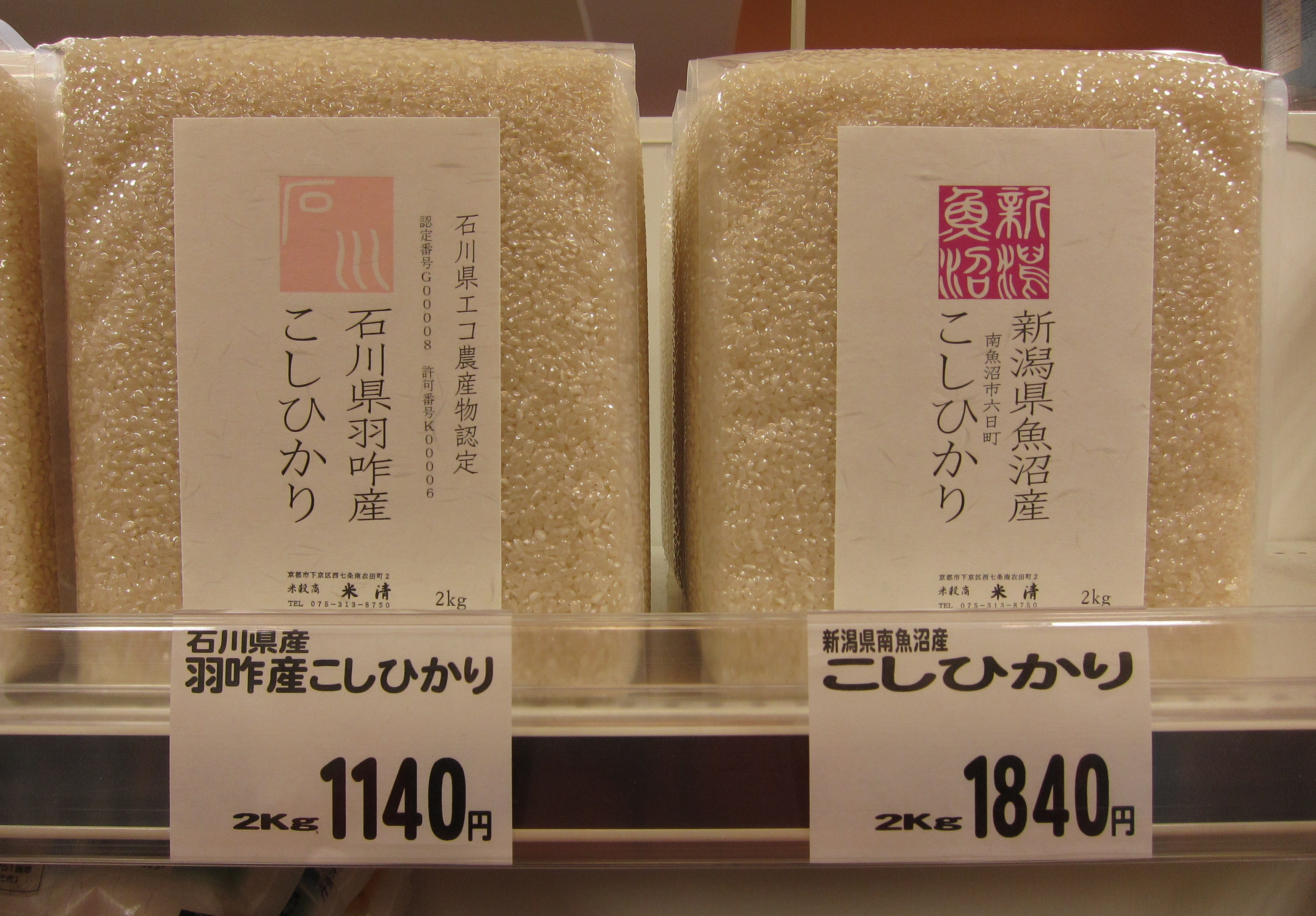 Two bags of Koshihikari in a Japanese supermarket (Kyoto), showing the price difference between rice from Uonuma, Niigata (1840円 for 2kg) and that from another region (in this case Hakui District, Ishikawa, 1140円 for 2kg); here the Uonuma rice commands a 60% premium.